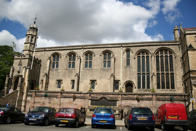 Browne's Hospital Founded in 1485 by wealthy wool merchant William Browne to provide a home and a house of prayer for 12 poor men and 2 poor women .... and still doing so over 530 years later.